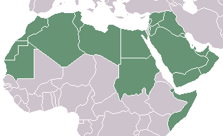 a map of territory claimed by states of the Arab World